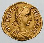 Avitus. 455-456 AD. AV Tremissis (1.53 gm). Ravenna mint. D N AVITVS PERP AVG, diademed, draped and cuirassed bust right Cross within wreath; COMOB. RIC X 2402; Lacam pl. 53; Depeyrot 50/1.